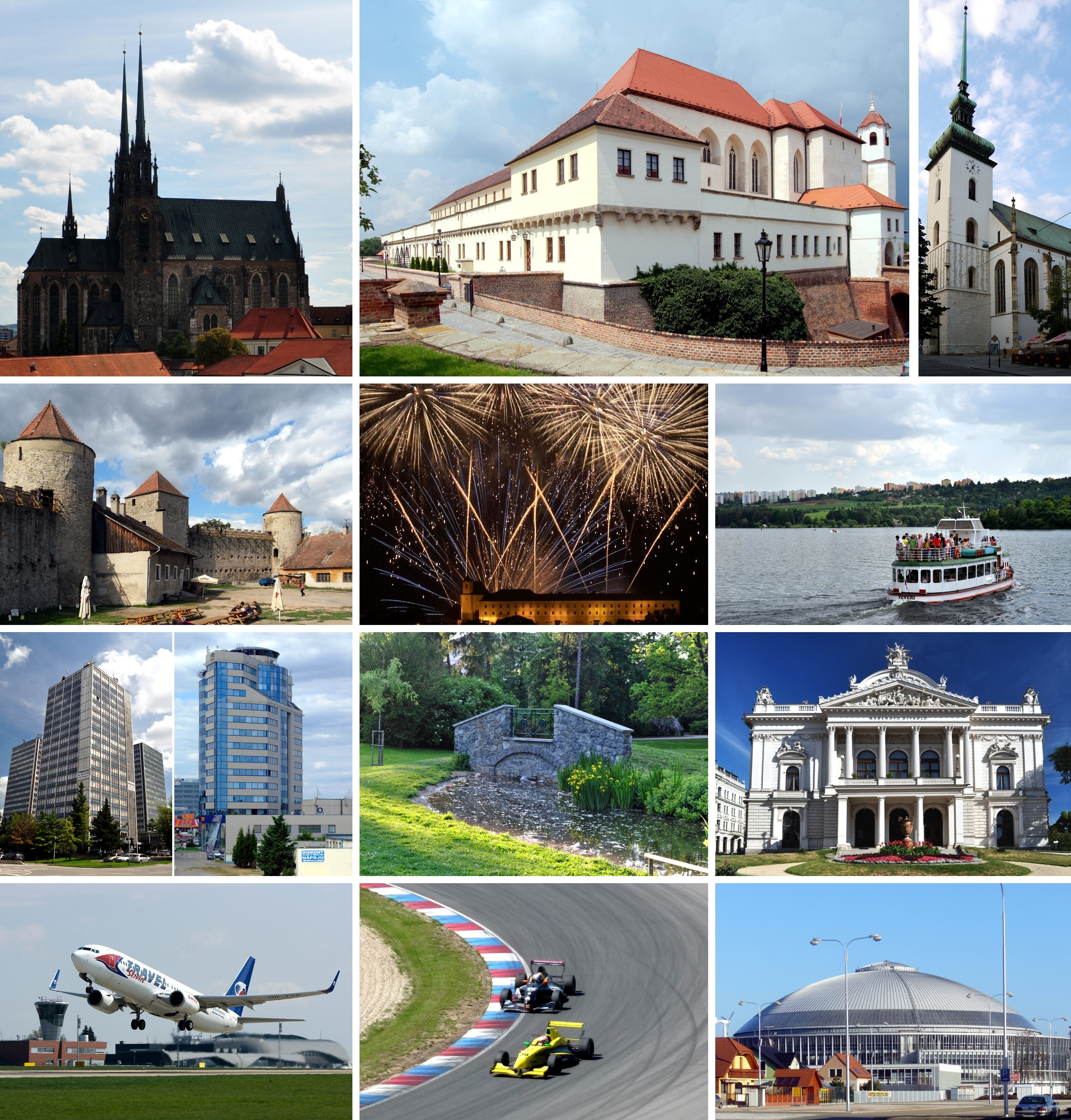 Brno city in Moravia, Czech republic, EU